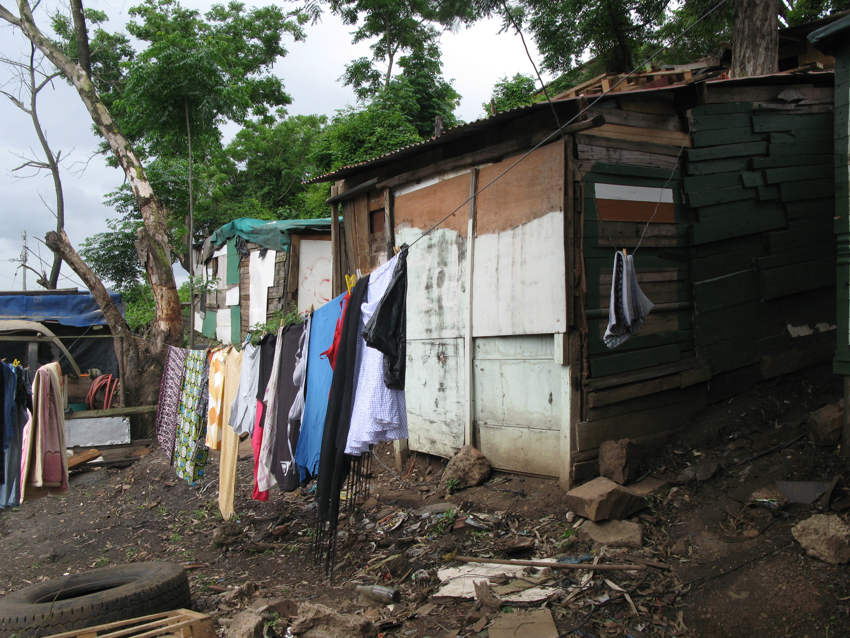 South Africa - eThekwini field trip on faecal sludge management